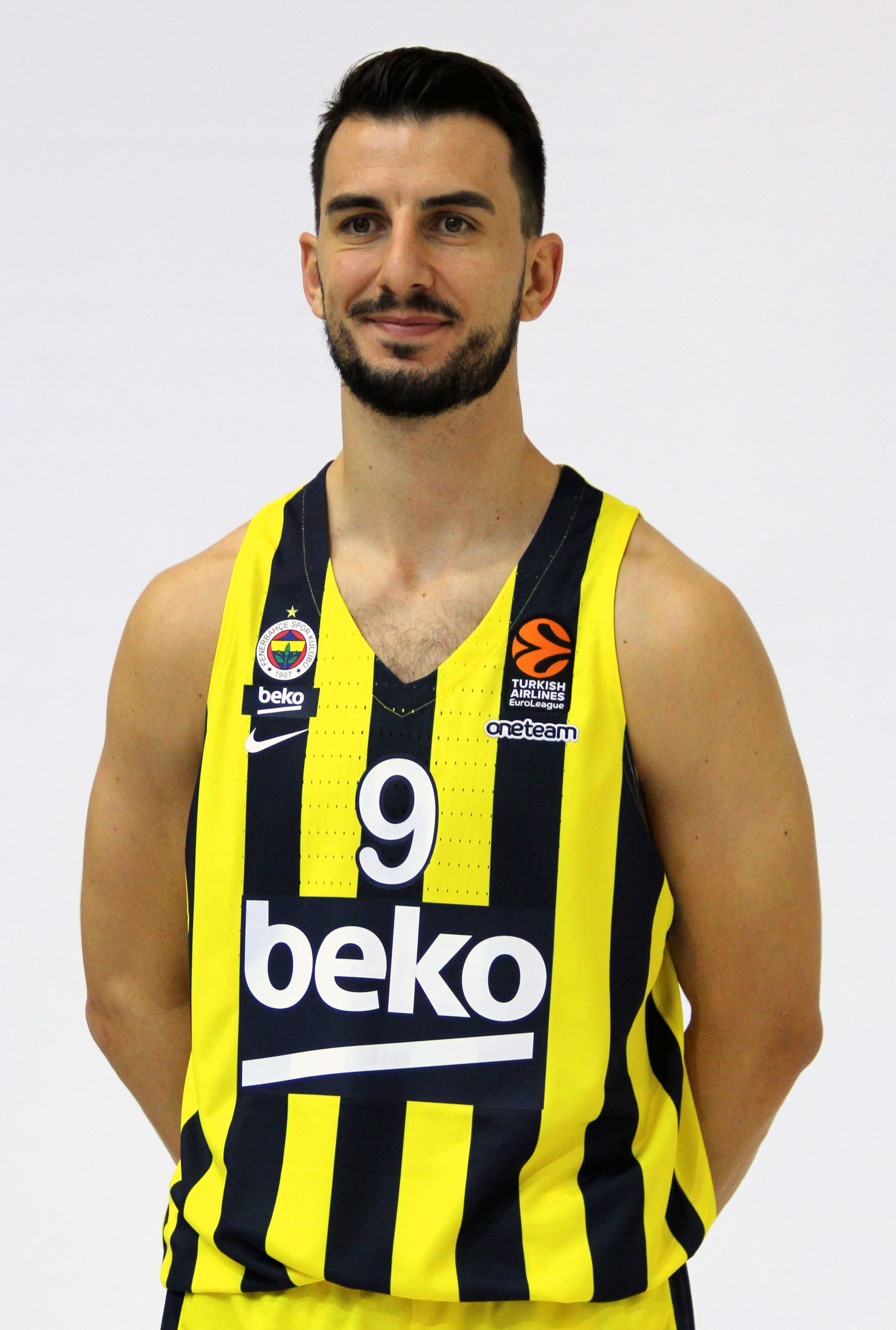 Léo Westermann 9 Fenerbahçe Basketball 20190923